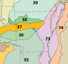 Level III ecoregions in Arkansas as defined by the U.S. Environmental Protections Agency